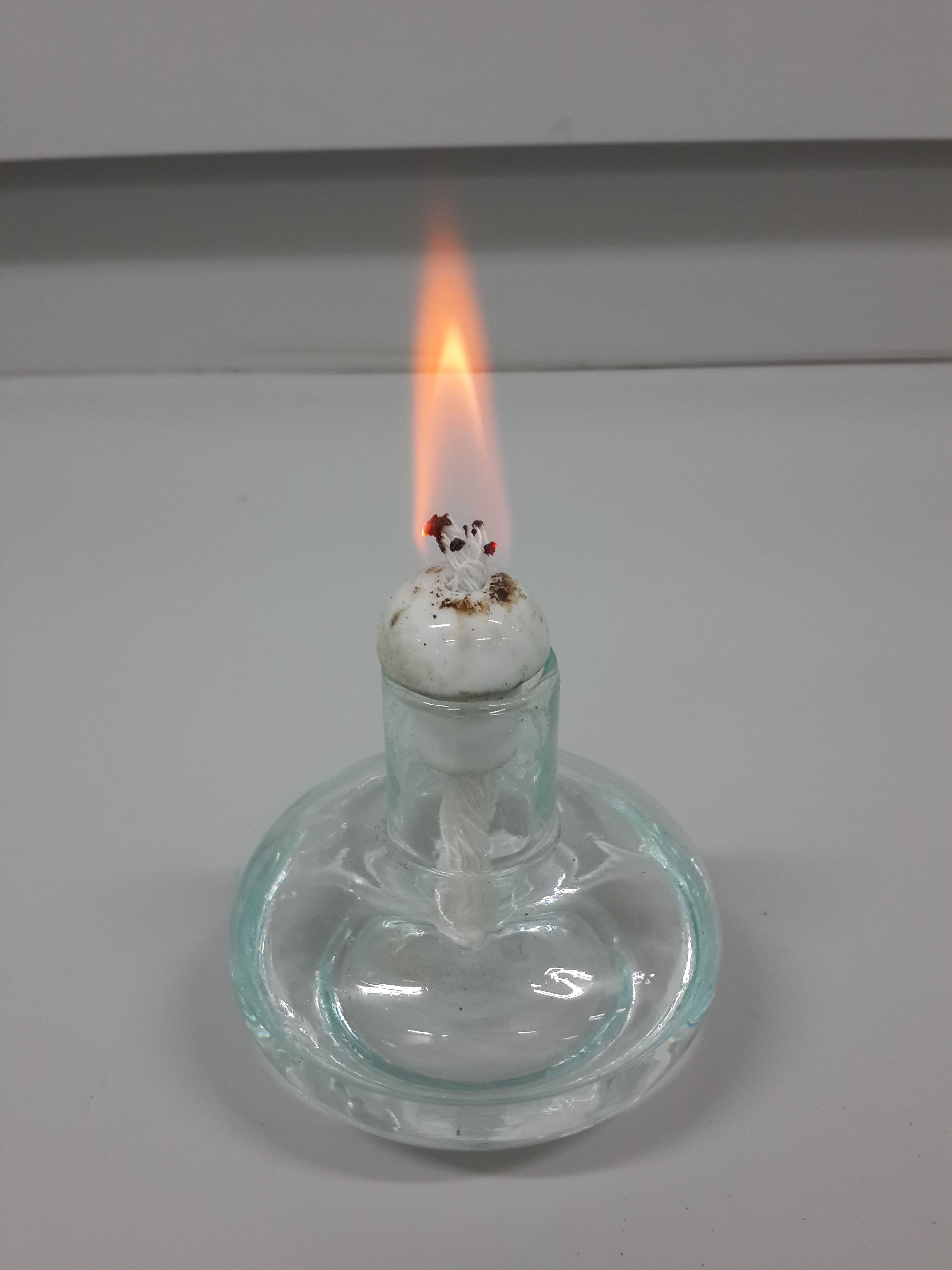 A glass alcohol burner with open fire.